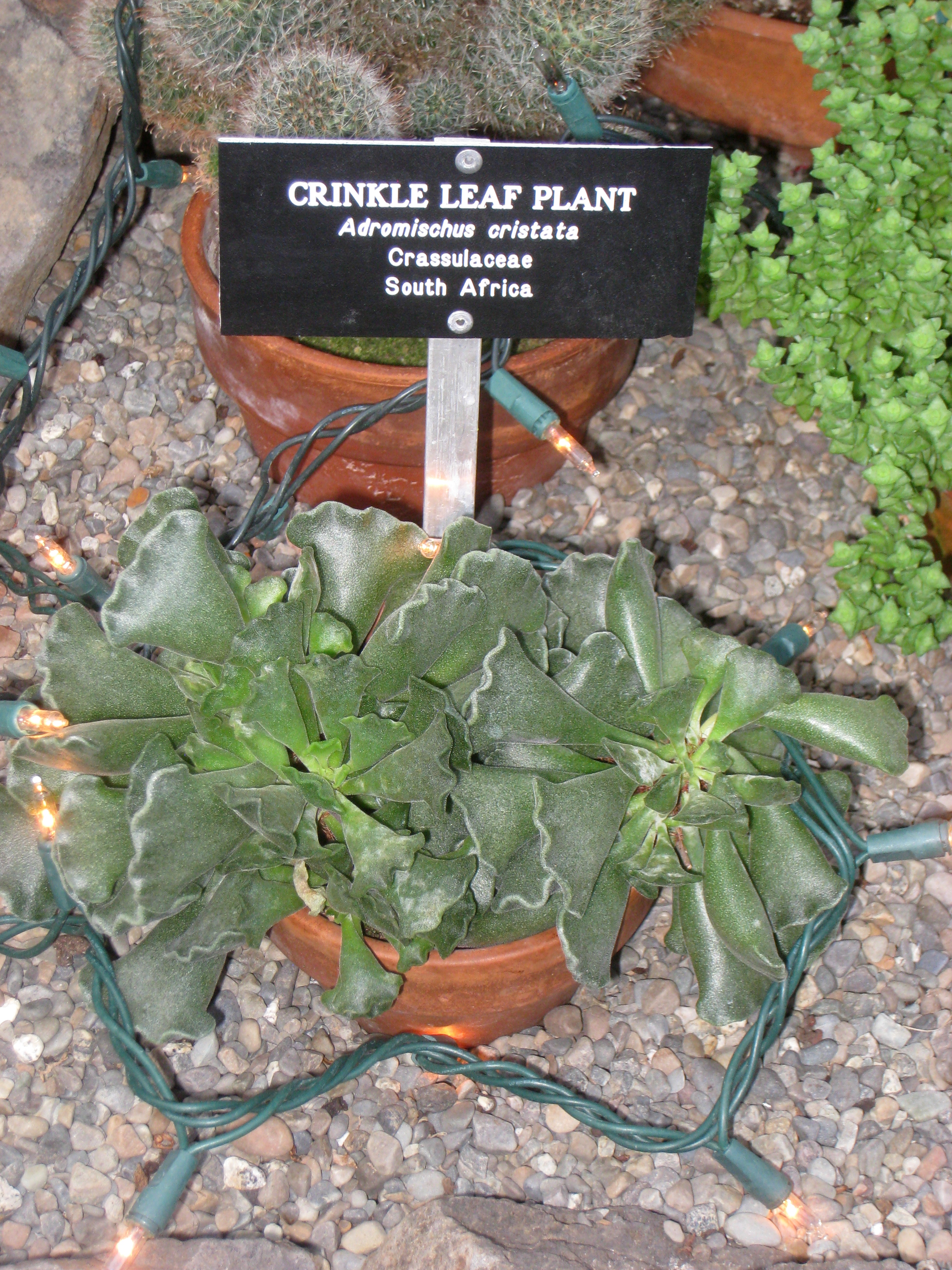 Adromischus cristatus specimen, Gaiser Conservatory, Manito Park, Spokane, Washington, USA.